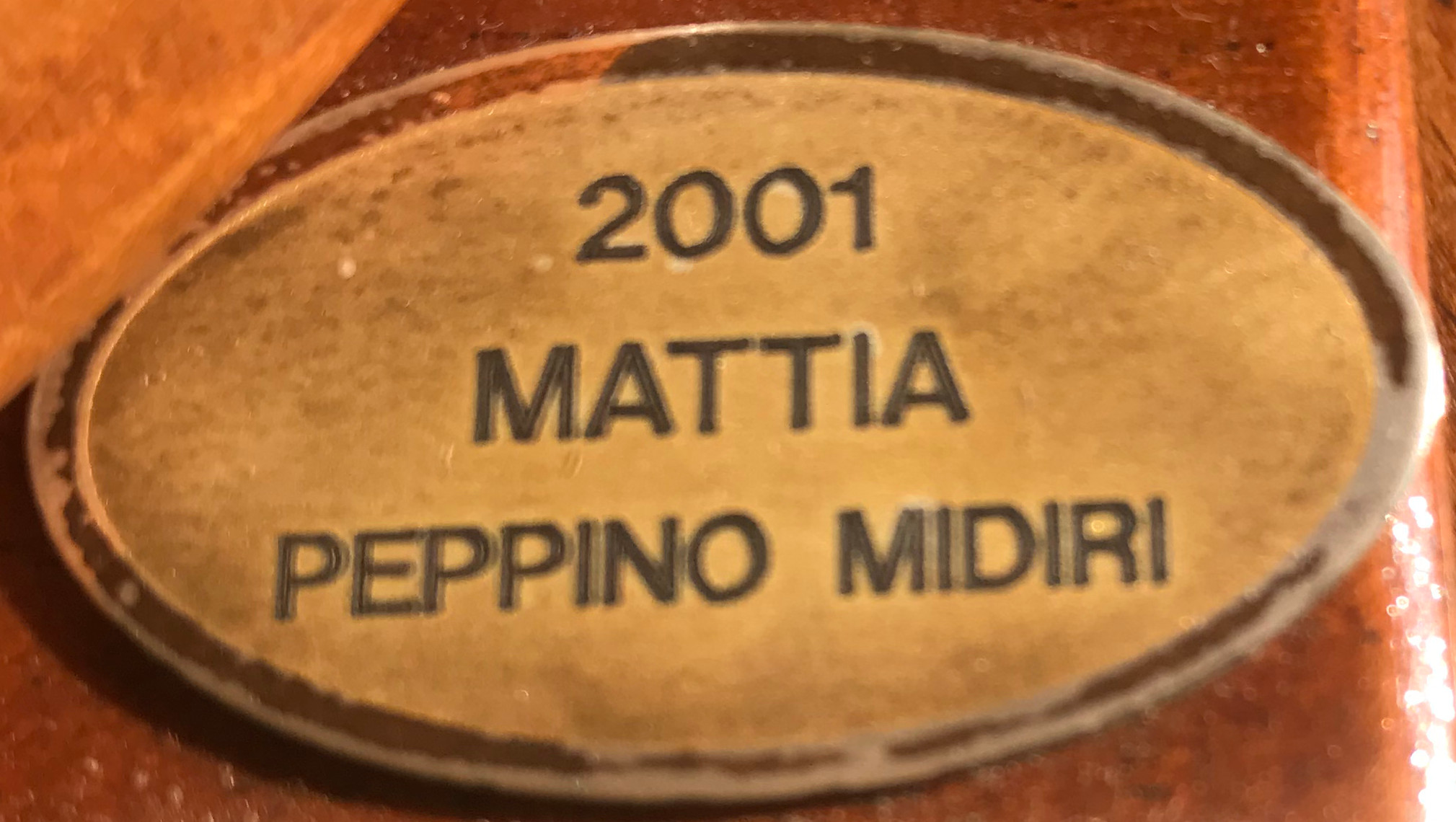 Patch on the Trophy